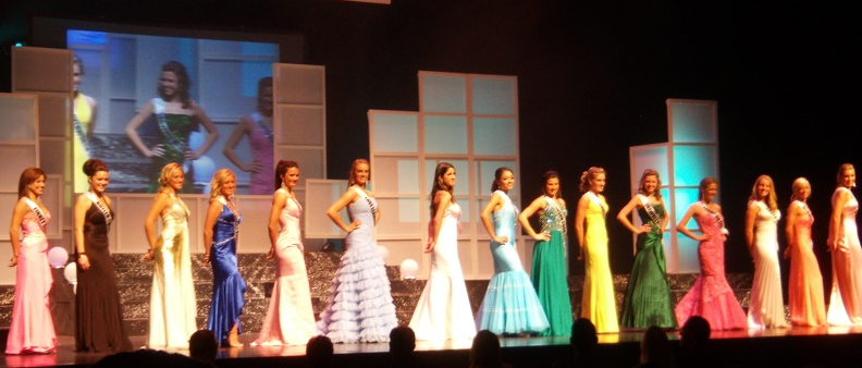 Semi-finalists of the Miss Kansas Teen USA 2008 pageant, held at the The Lied Center on the University of Kansas campus in Lawrence. The eventual winner, Jessie Colonna, is sixth from the left.